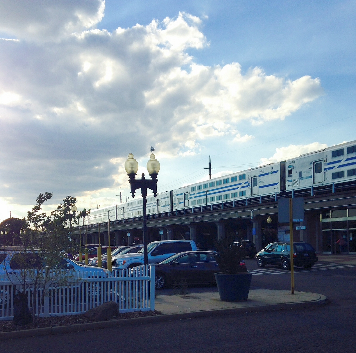 An eastbound passenger train at Babylon's LIRR station